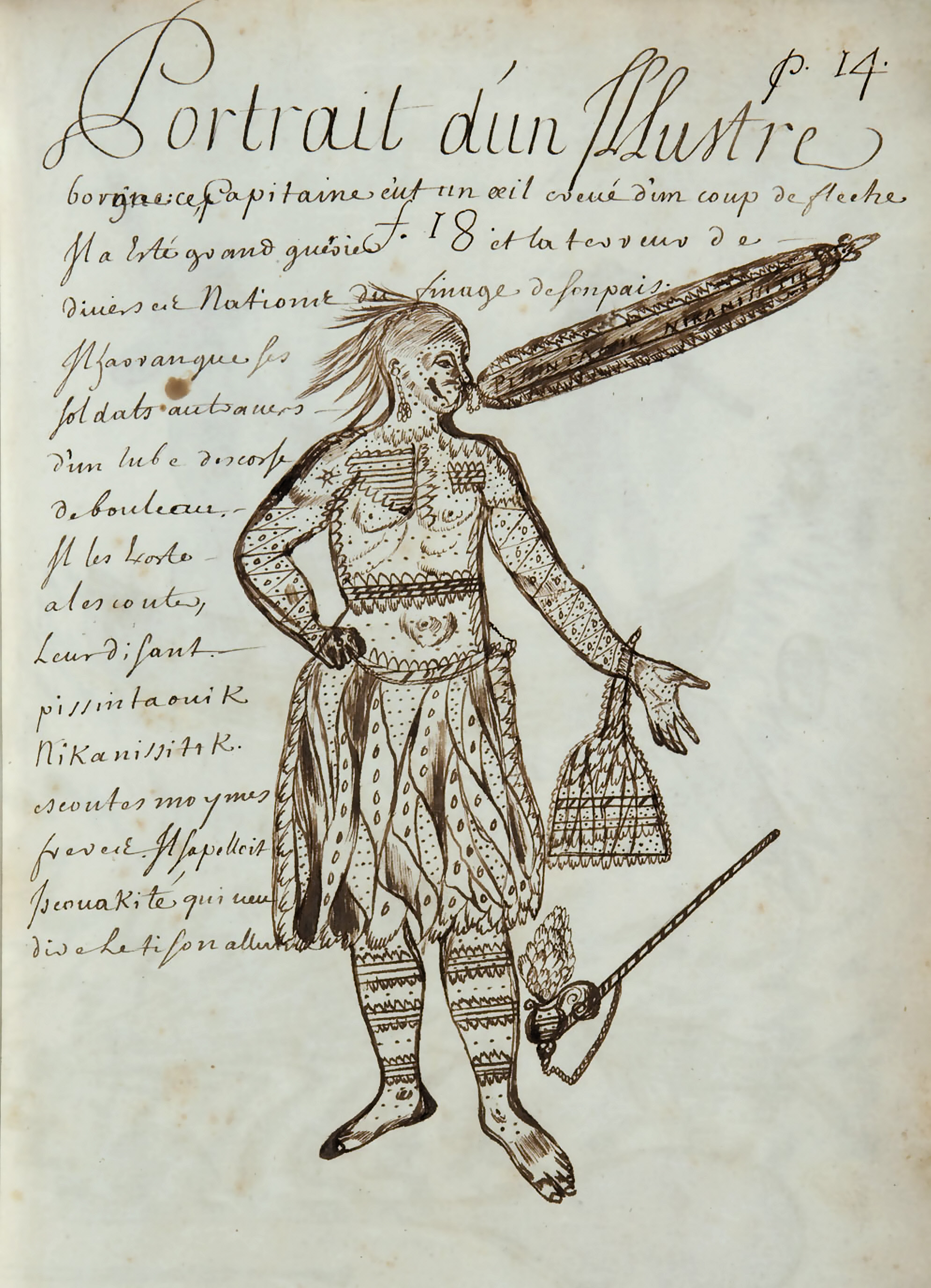 Portrait of a famous one-eyed man. This captain had one eye put out by an arrow. He was a great warrior and was the terror of many surrounding nations. He is addressing his soldiers through a birch bark tube. He urges them to pay attention to him, saying: Pissintaouik nikanissitik, Listen to me, my brothers. He was called Iscouakité, which means “burning firebrand.”